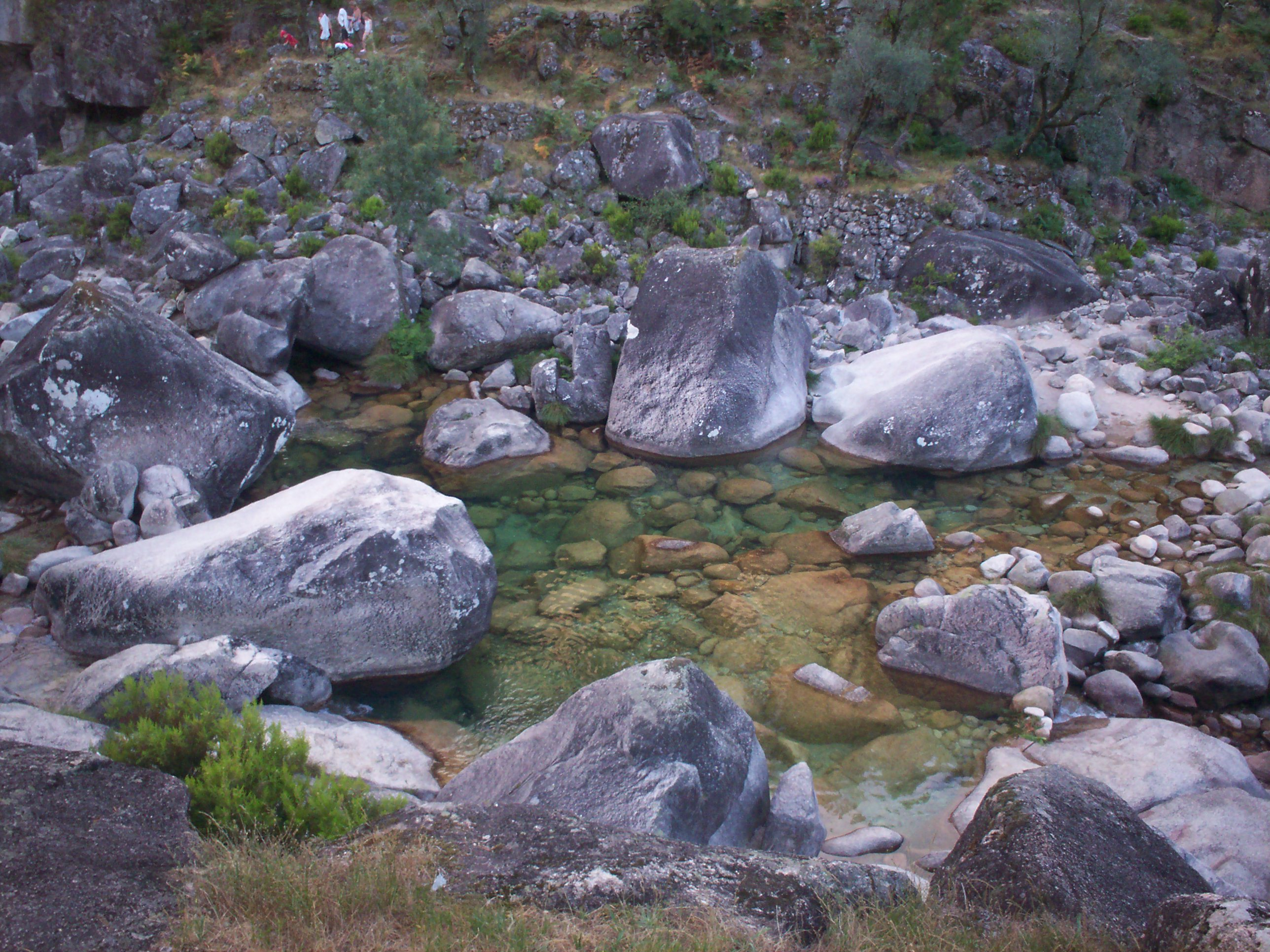 A natural lake in Gerês, Portugal.